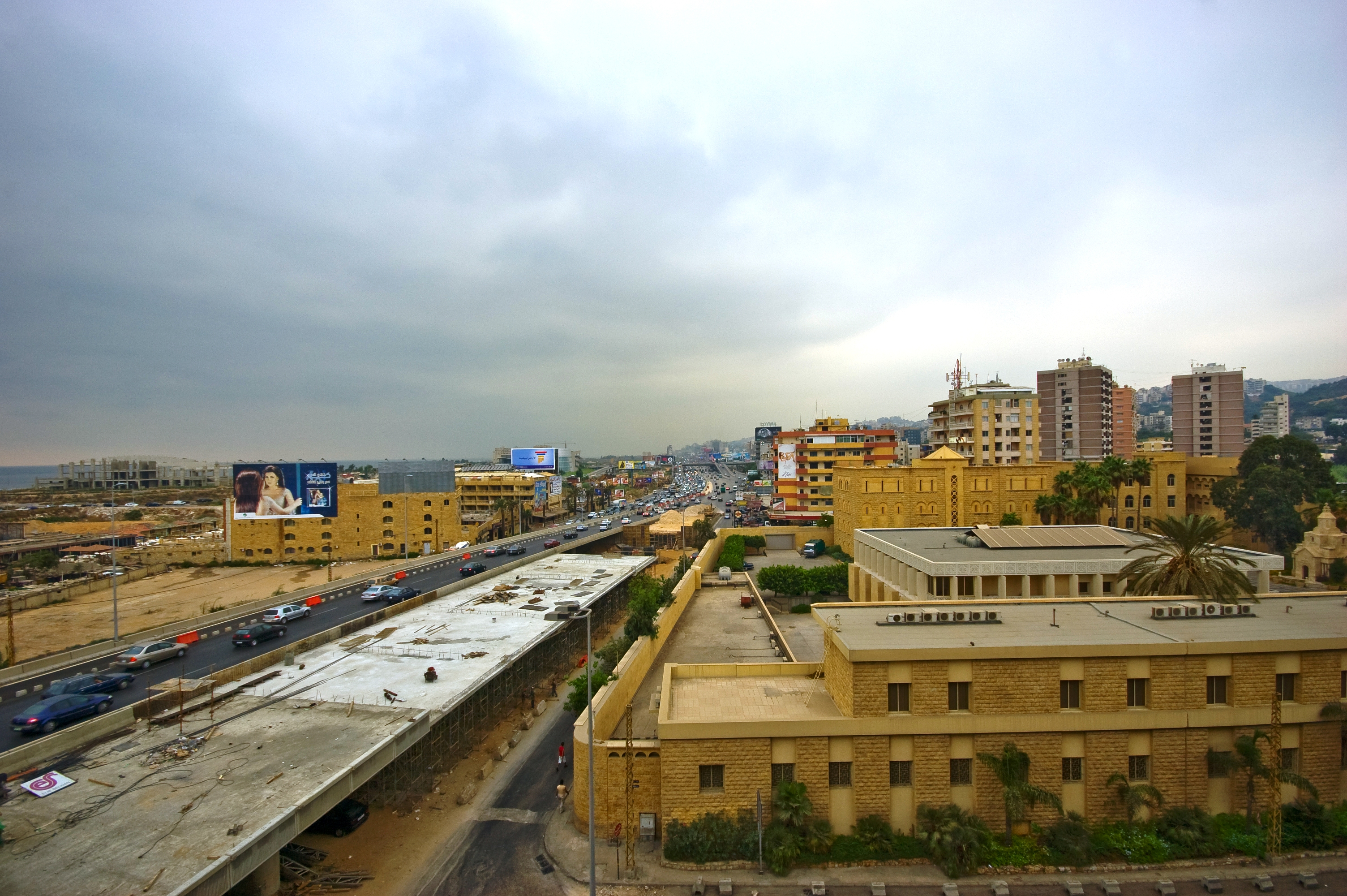 The Holy See of Cilicia, Antelias, Lebanon.